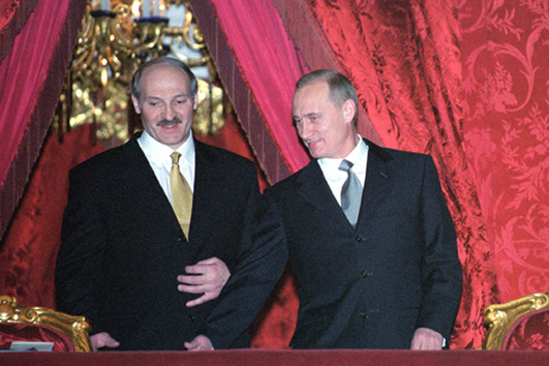 THE BOLSHOI THEATRE, MOSCOW. President Putin with Belarusian President Alexander Lukashenko in a box at the Bolshoi Theatre before watching the ballet “Rogneda” performed by the Belarusian National Academic Ballet Theatre.